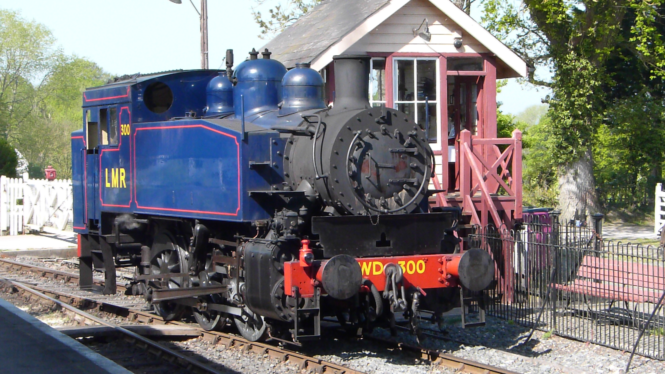 SR N°70, BR 30070 and WD N°300